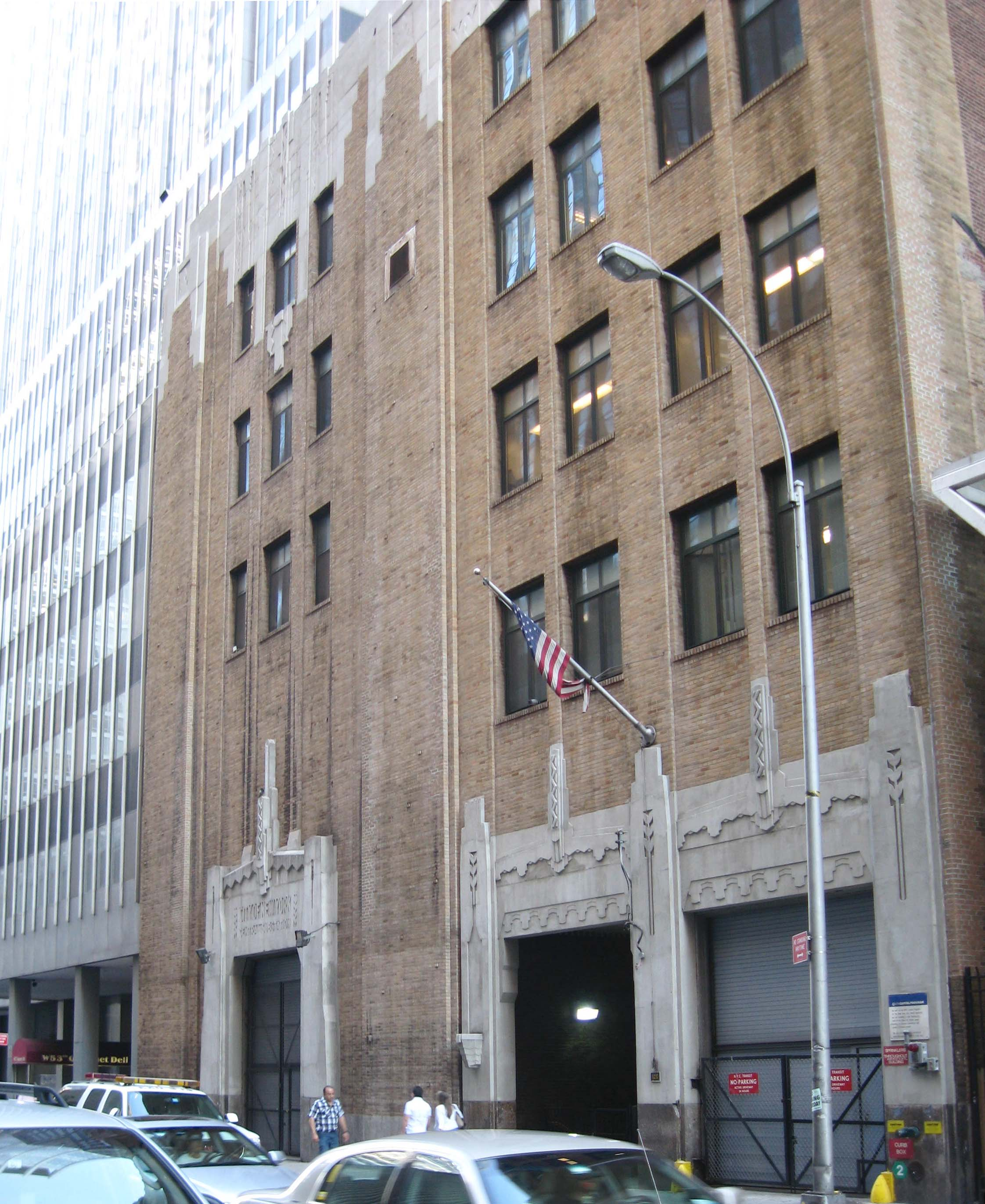 Looking southeast at Central Substation of IND Subway on south side of 53d Street, west of 6th Avenue.